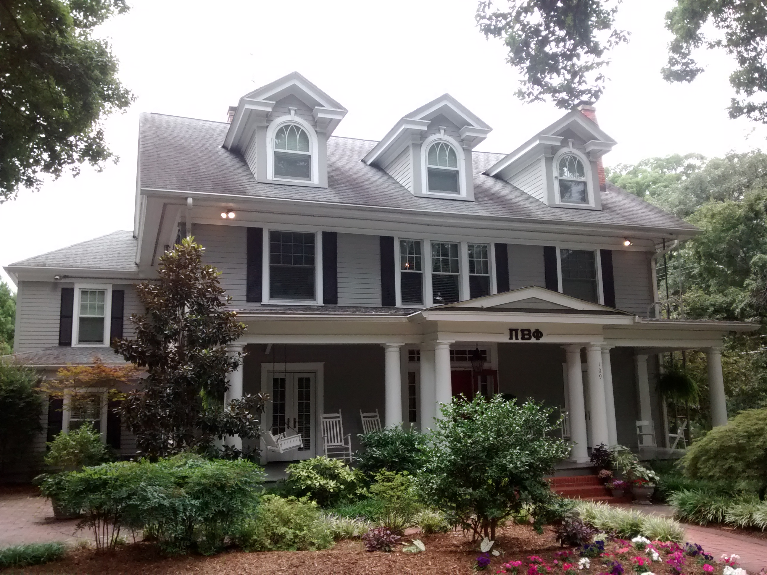 Pi Beta Phi, a sorority, at the University of North Carolina at Chapel Hill.